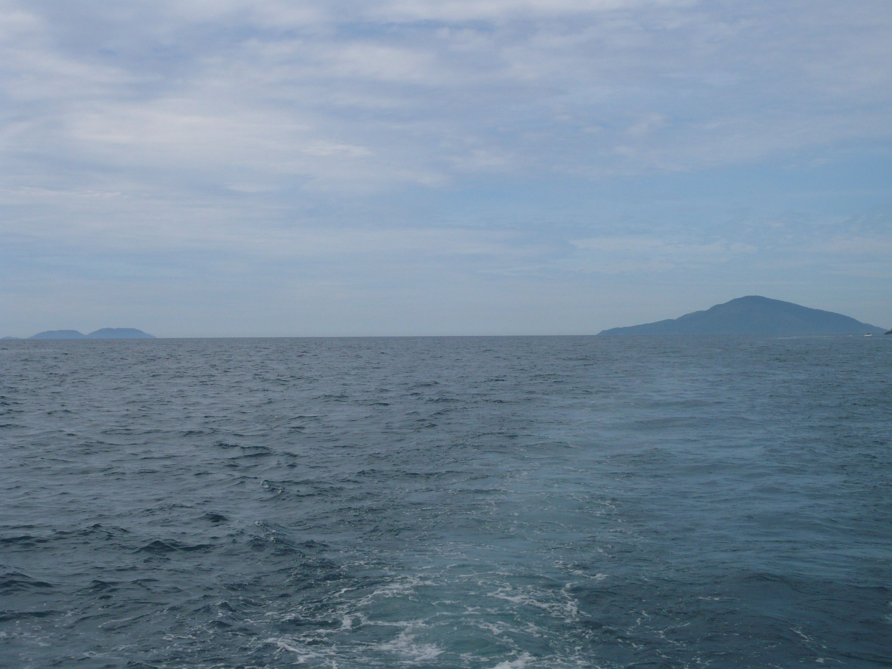 Búzios (right) and Vitória (left) Islands off the coast of Ilhabela, Sâo Paulo, Brazil, seen from the South.